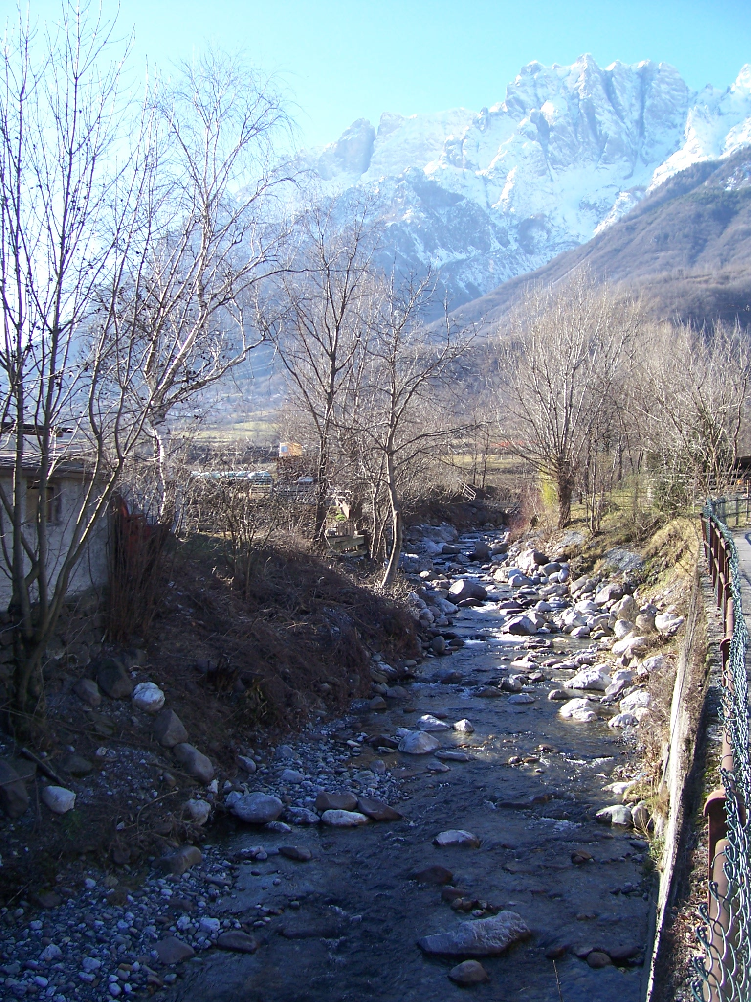 Clegna river, Val Camonica